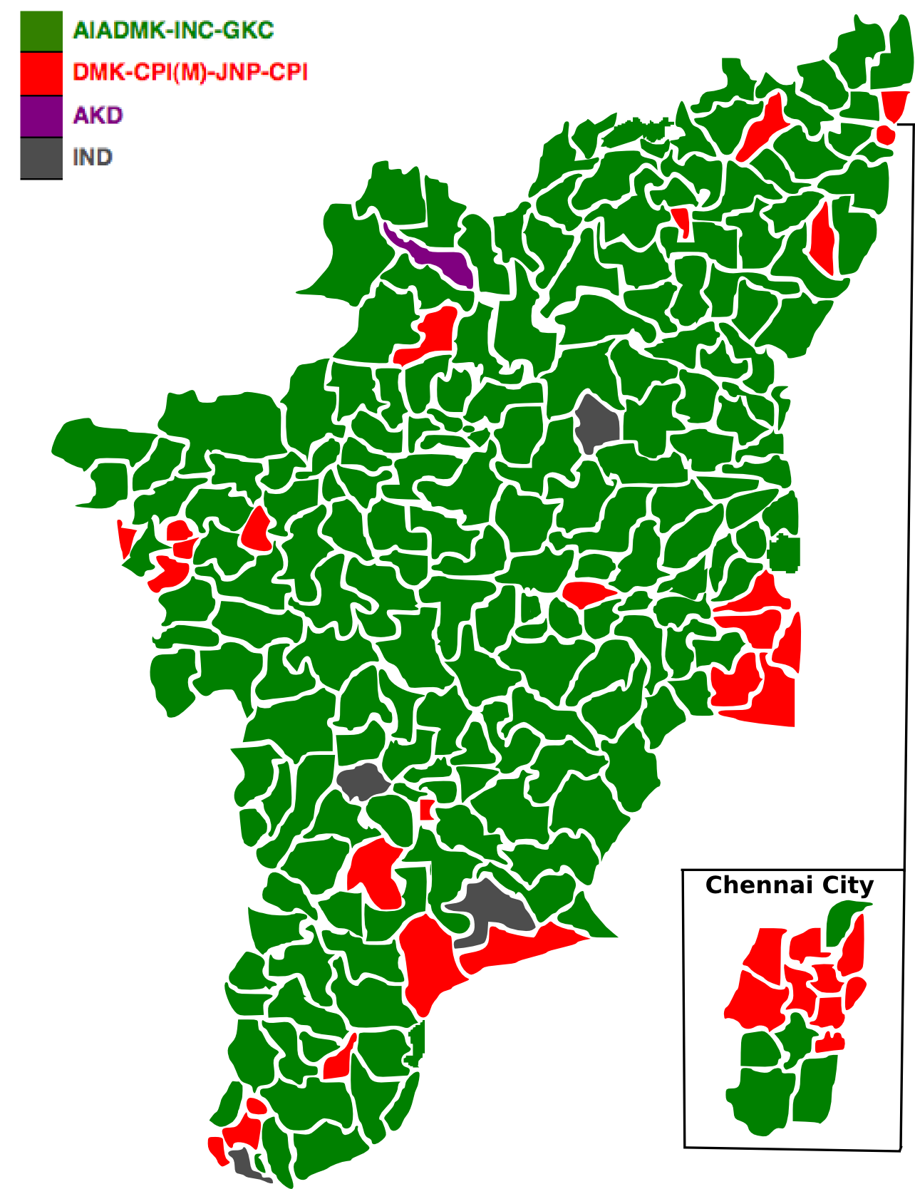 made election map using borders from ECI website using Inkscape.